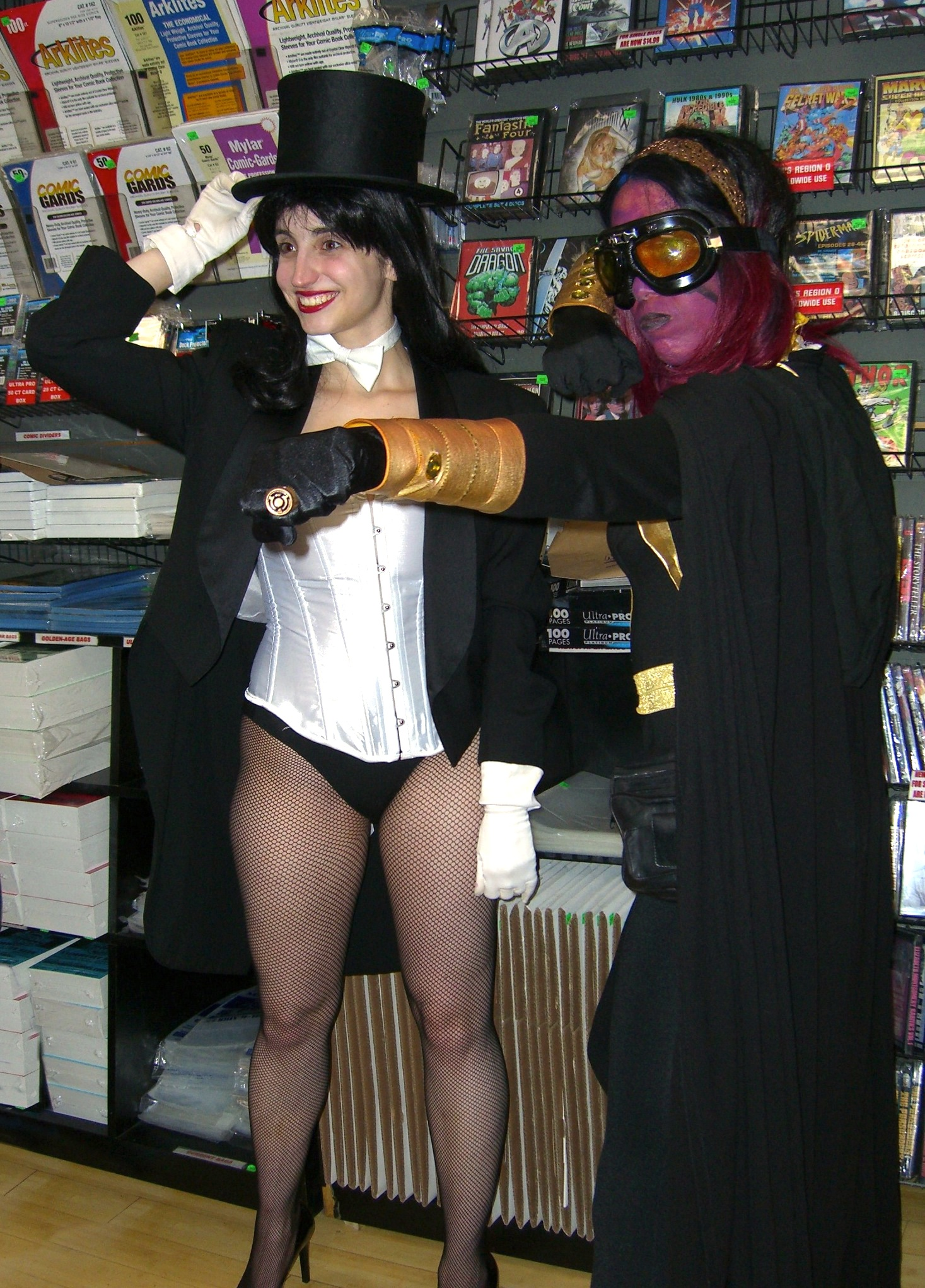 Two female fans dressed as comic book characters Zatanna and a member of the Sinestro Corps at the August 31, 2011 midnight signing of Flashpoint #5 and Justice League #1 by creators Jim Lee and Geoff Johns, as part of "The New 52", the 2011 company-wide relaunch by DC Comics of its entire superhero comic book line. Photographed by Luigi Novi. This photo is not in the public domain. It may, however, be used, modified and published for any purpose, free of charge, only if the photographer is properly credited, either by linking the photograph to this page, or with an easily visible credit to the photographer placed near the photo in each instance in which it is used. (See licensing information below.) Publication of this photo without this proper attribution constitutes copyright infringement. If you have any questions, you can contact me on my Wikipedia Talk Page.